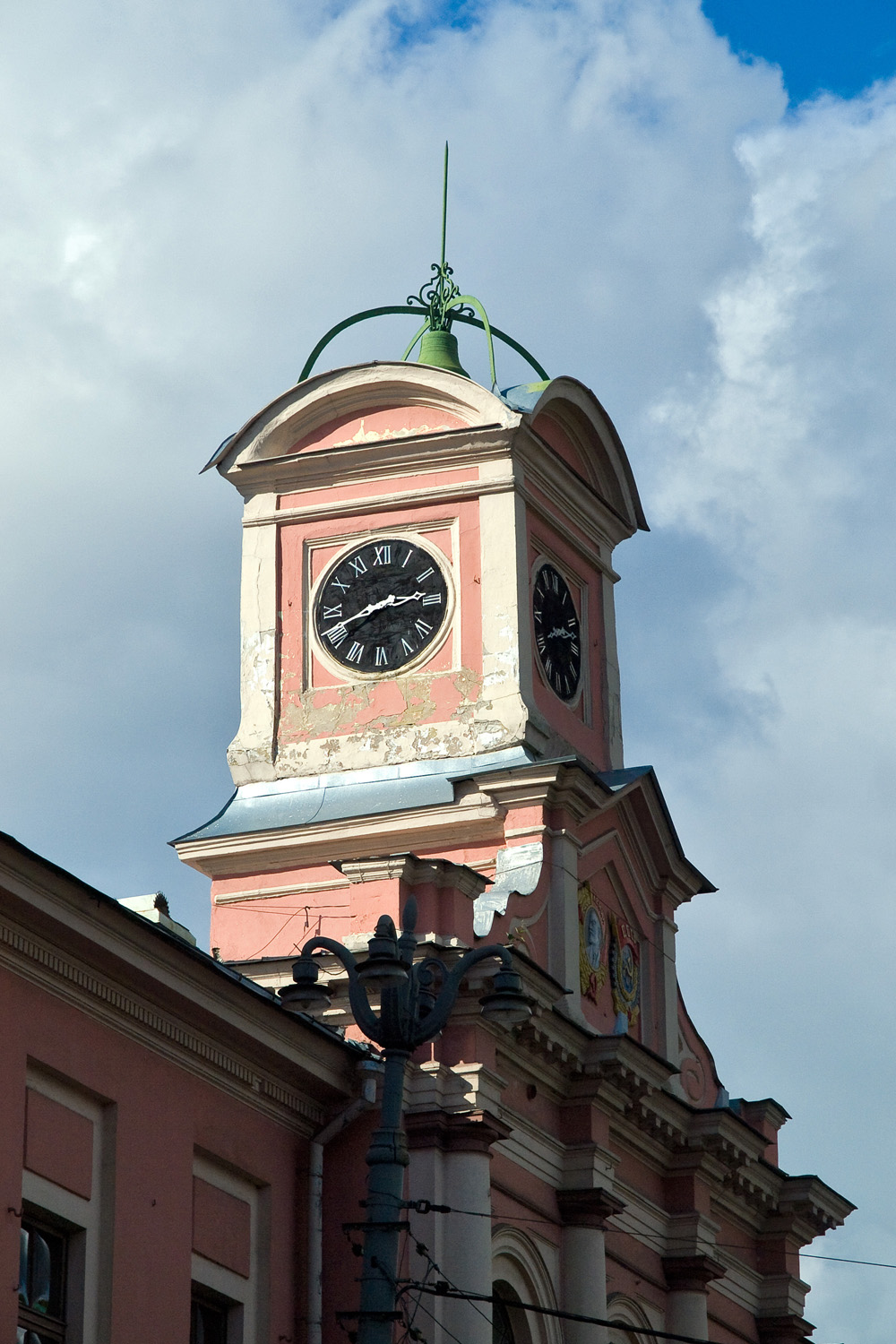 Main building of Timiryazev Agricultural Academy, Moscow (former manor house of Razumovsky Estate)